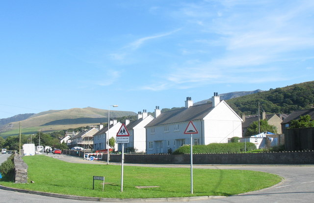 The Bro Silyn Estate, Talysarn. A local authority estate on the south-eastern outskirts of the former quarrying village of Talysarn.